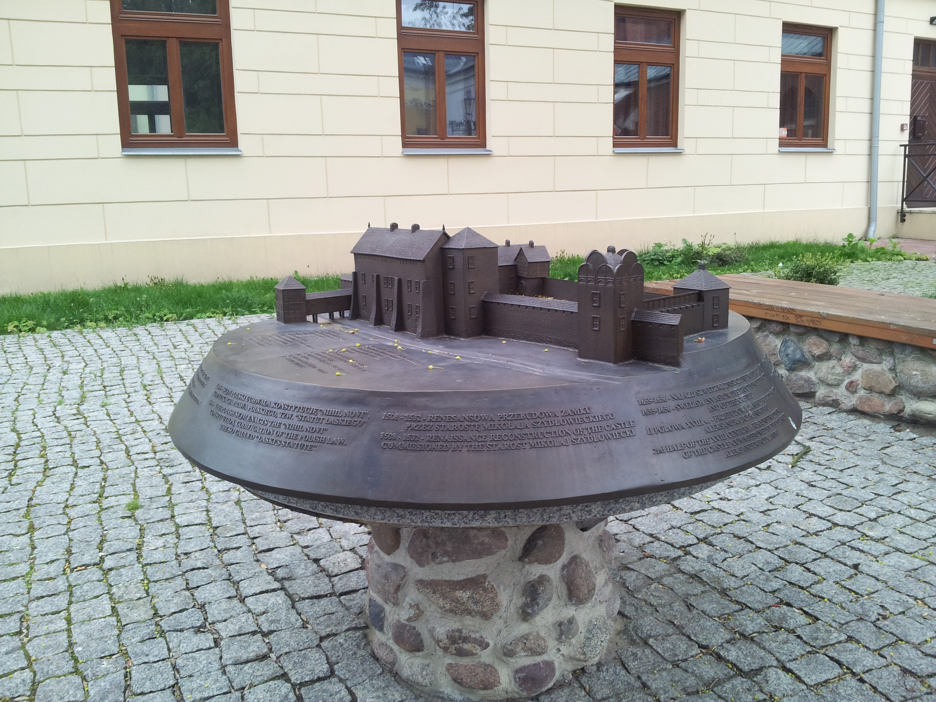 Model of the royal castle in Radom (17th century)